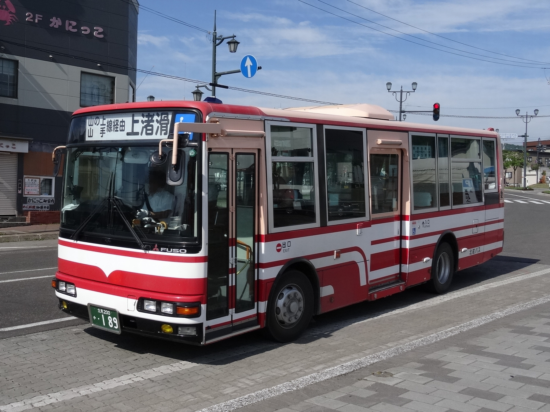 Monbetsu City line